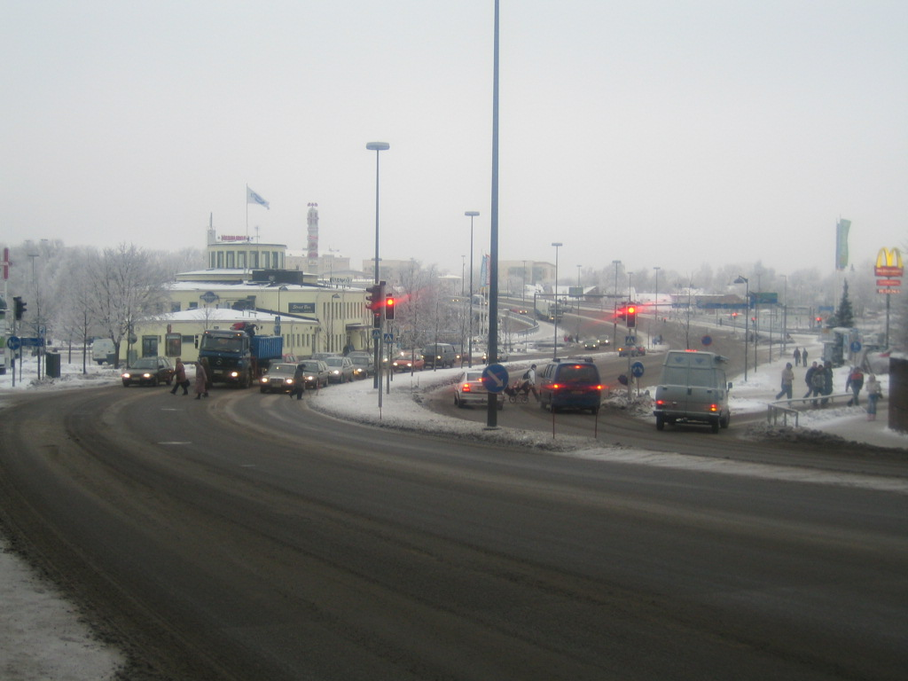 The western end of Aninkaistenkatu in Turku, Finland